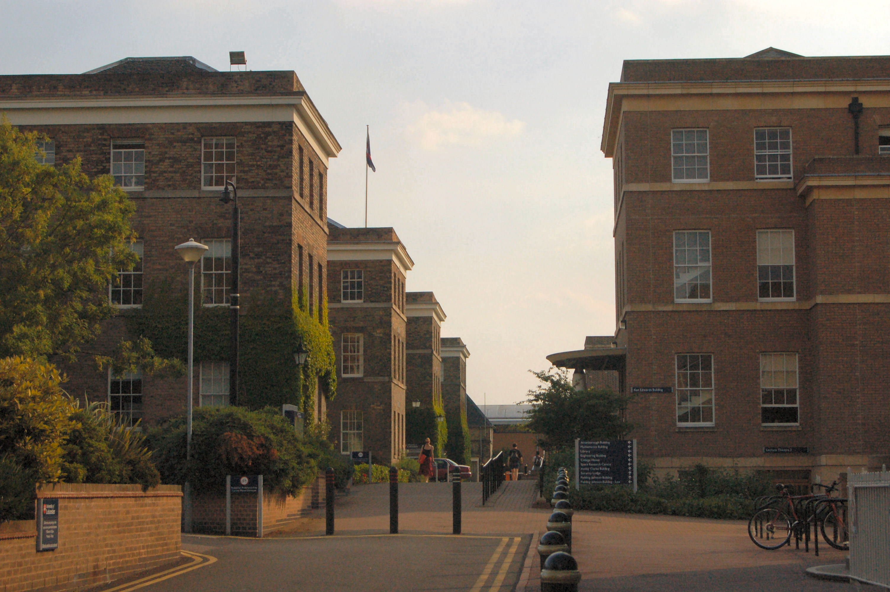 University of Leicester campus